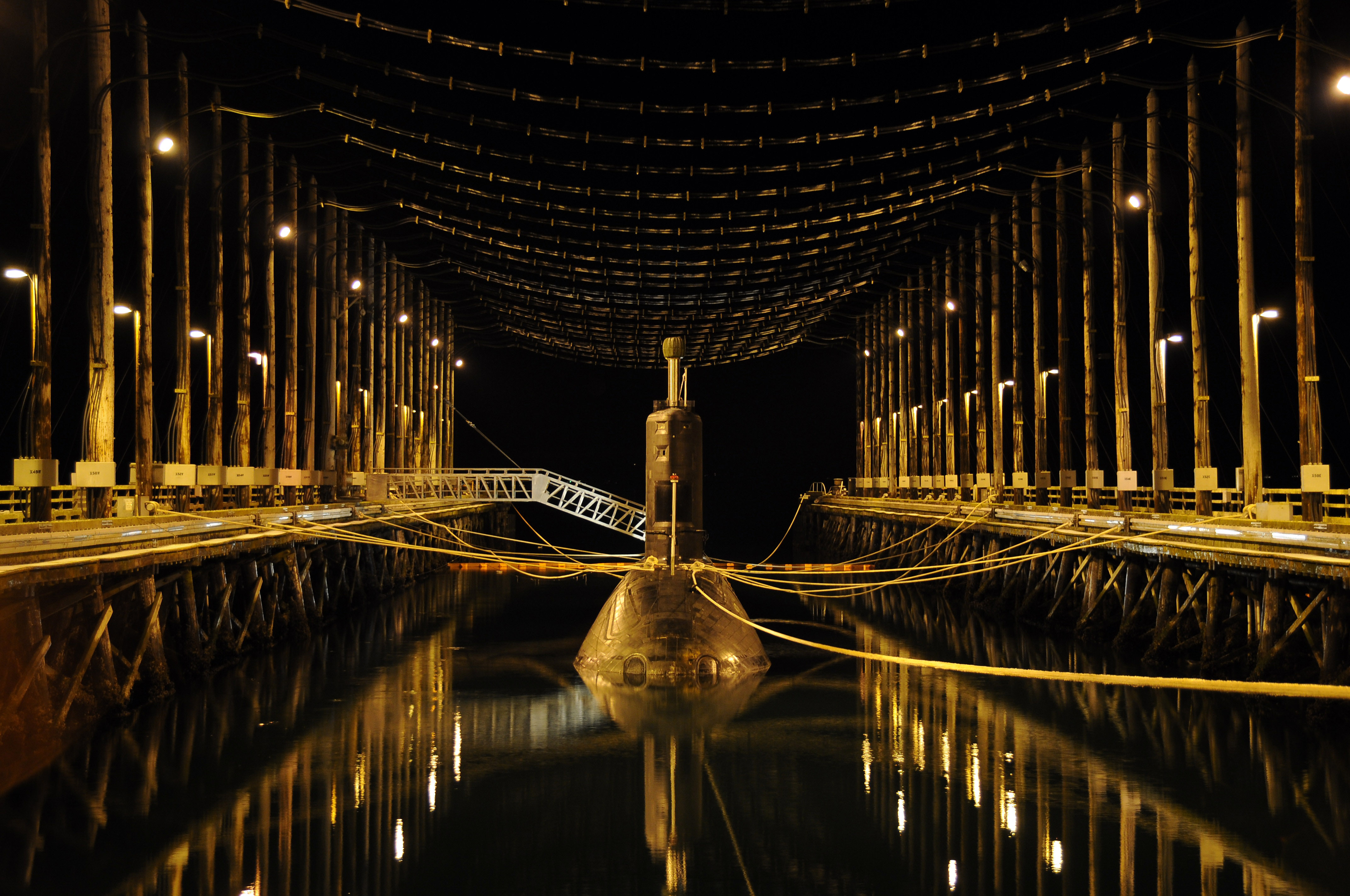 BANGOR, Wash. (Dec. 13, 2011) The Royal Canadian Navy submarine HMCS Victoria (SSK 876) is moored in the Magnetic Silencing Facility at Naval Base Kitsap-Bangor for a deperming treatment. Deperming reduces a ship's electromagnetic signature as it travels through the water. (U.S. Navy photo by Lt. Ed Early/Released)